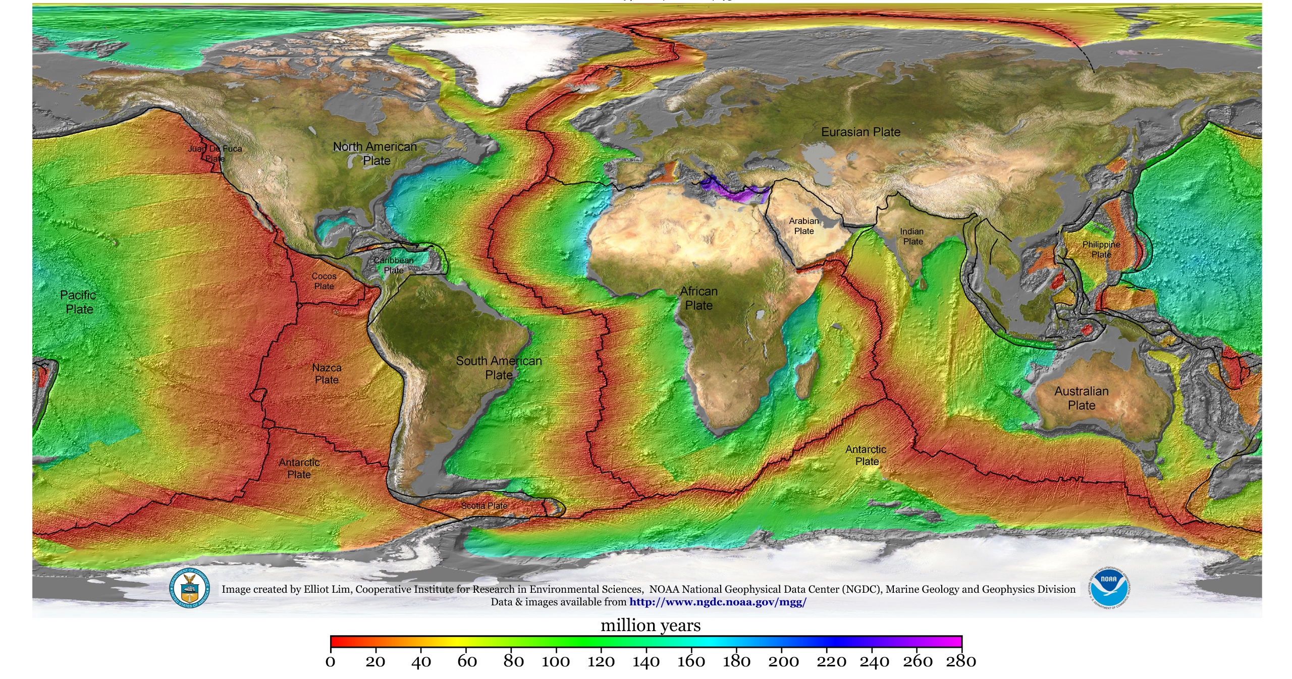 A map of the age of oceanic lithosphere